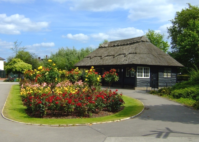 Victoria Park, Stafford Victoria Park straddles the river Sow. As its name suggests it is a classic town park from the turn of the C19th and C20th. It is a 'real' park with ordered municipal flowerbeds, an aviary, a bowling green, children's play area and paddling pool, hot house and a number of contemporary structures including a number of thatched pavilions.